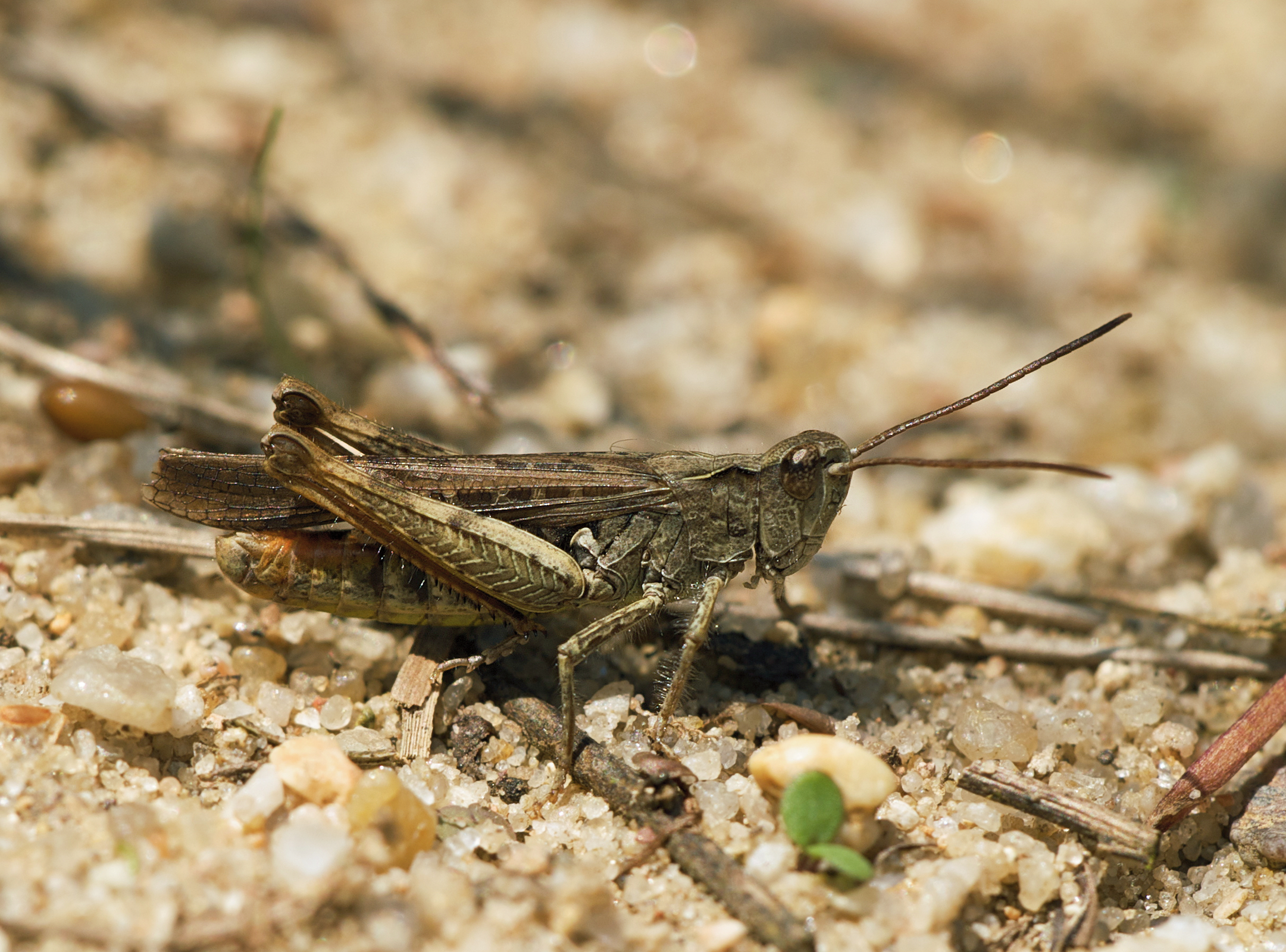 Male Common Field Grasshopper (Chorthippus brunneus), Chemnitz, Germany